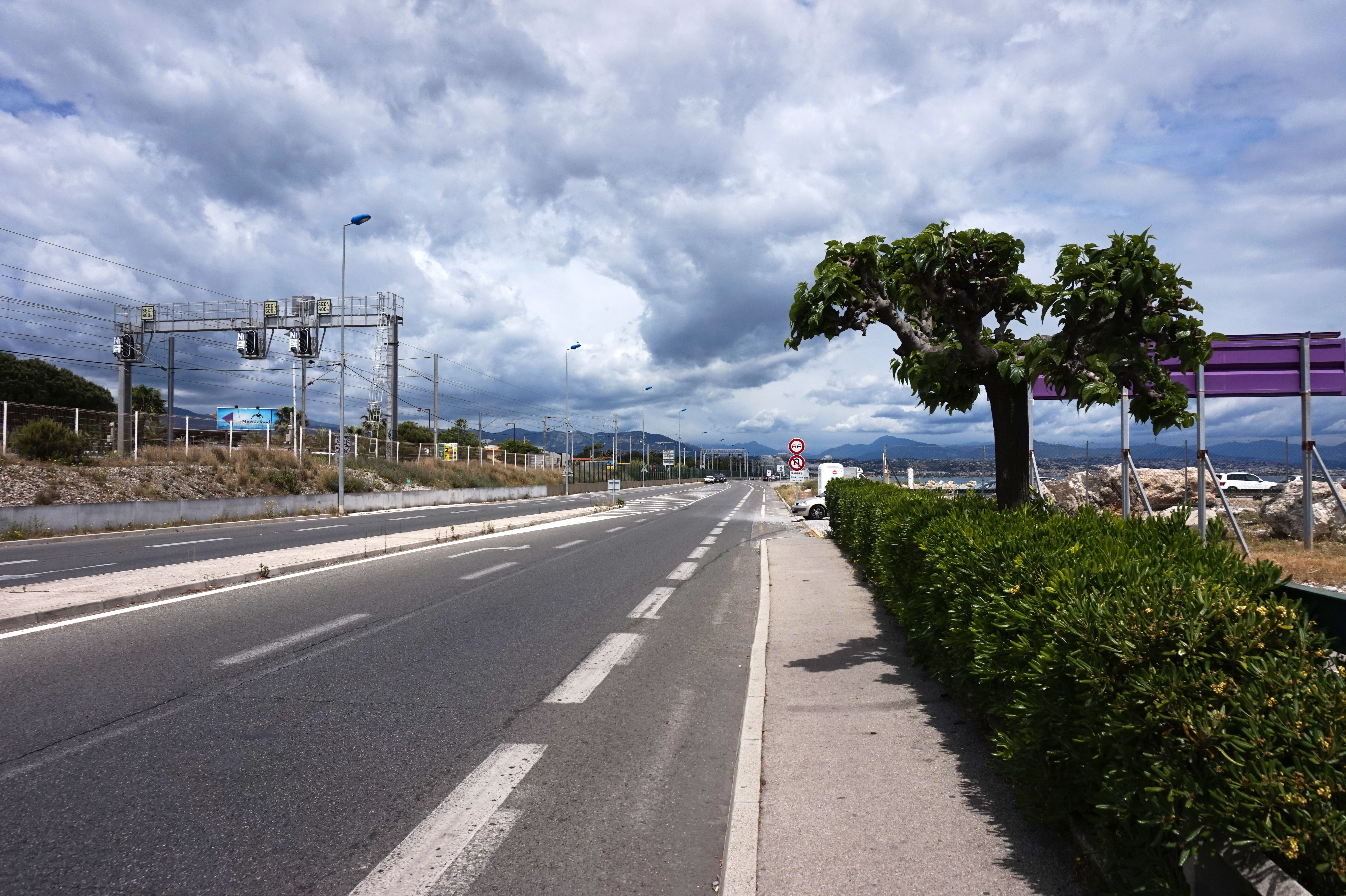 Route du Bord de Mer, Antibes. This photograph was taken with a Sony Alpha a5000.